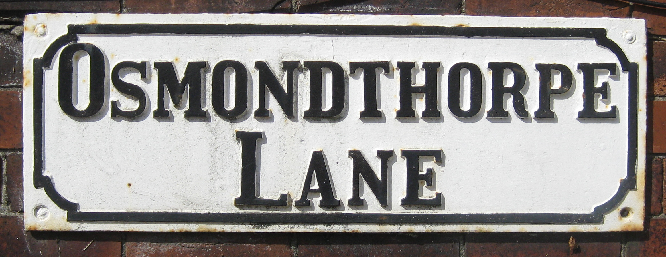 Osmondthorpe Lane street sign at the near the junction with York Road.